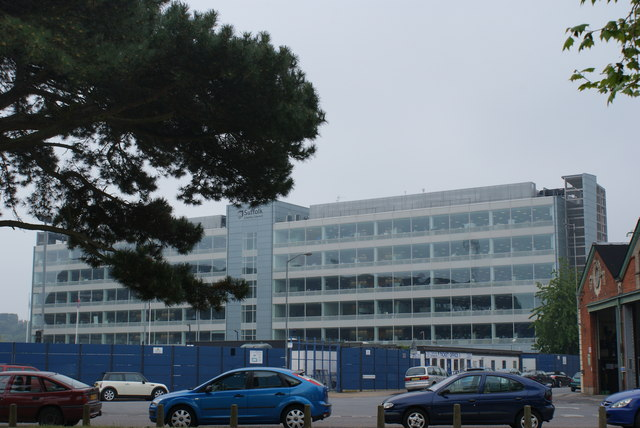 Endeavour House, home of Suffolk County Council